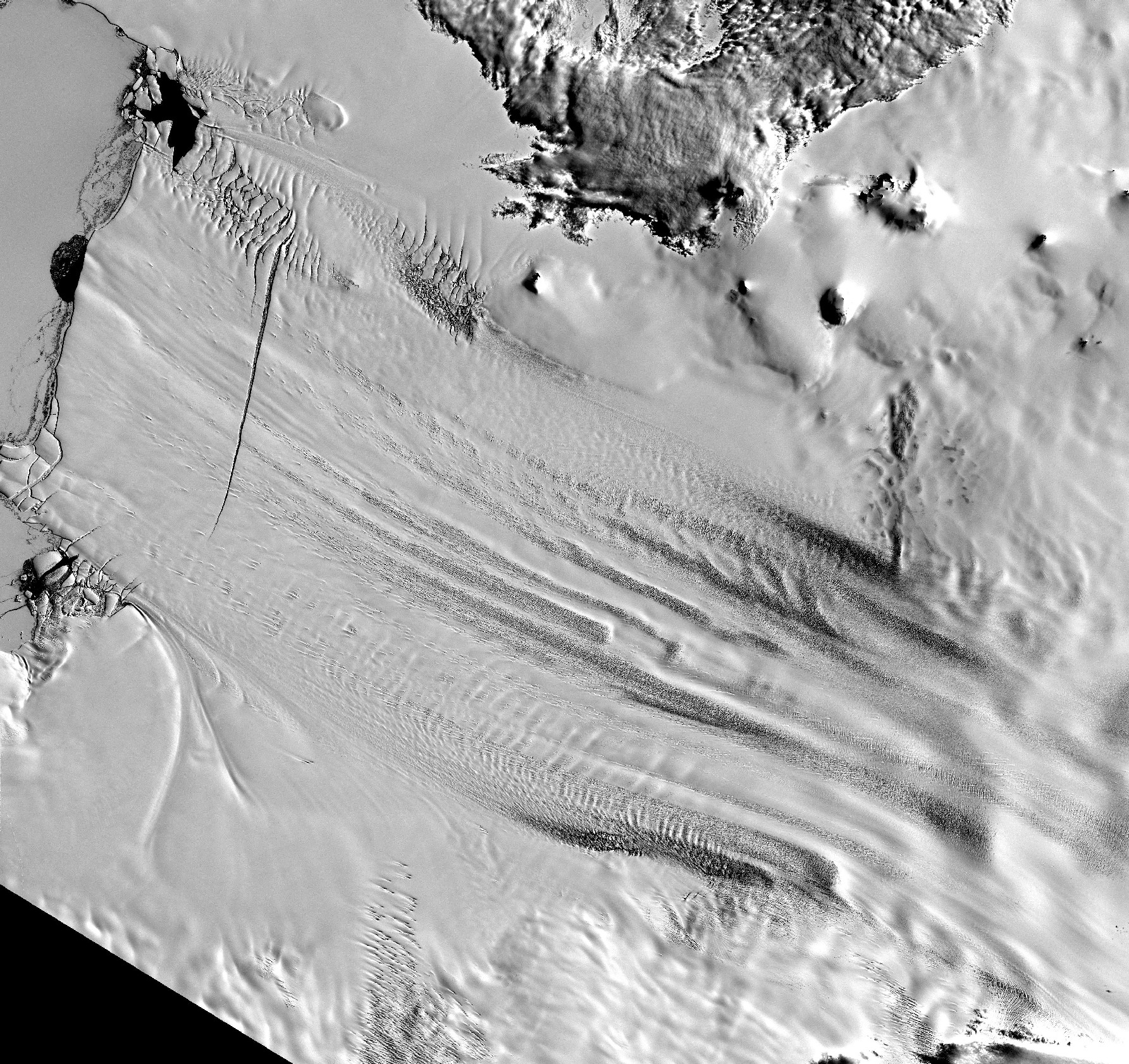 Landsat image of the Pine Island Glacier ice shelf, from NASA